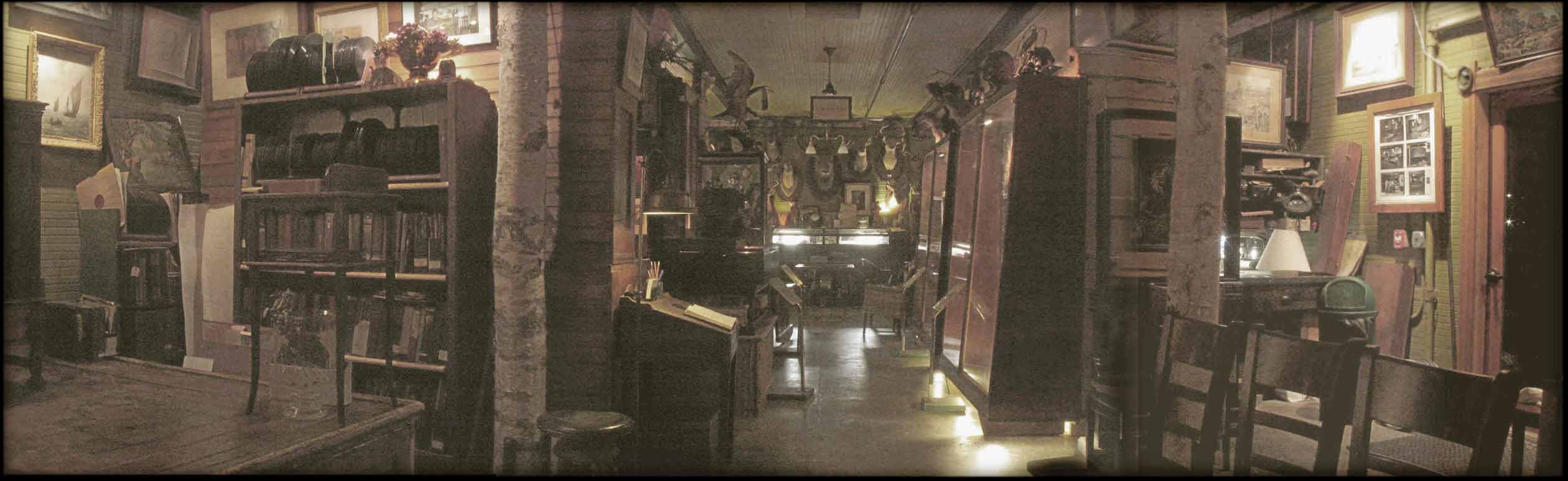 Interior of the Main Street Museum, 2007